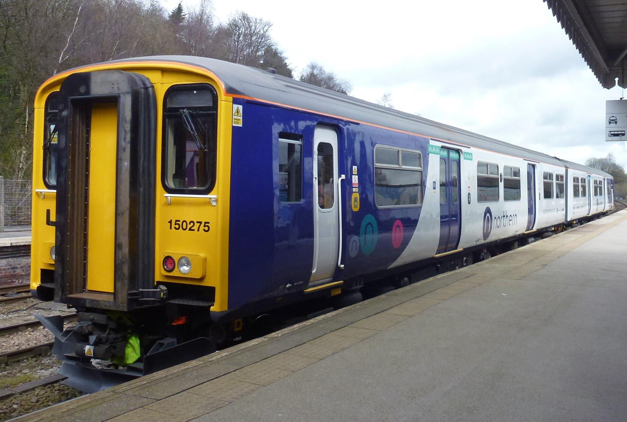 A DMU at Buxton, the first 150 to be repainted into the new Northern franchise's livery.